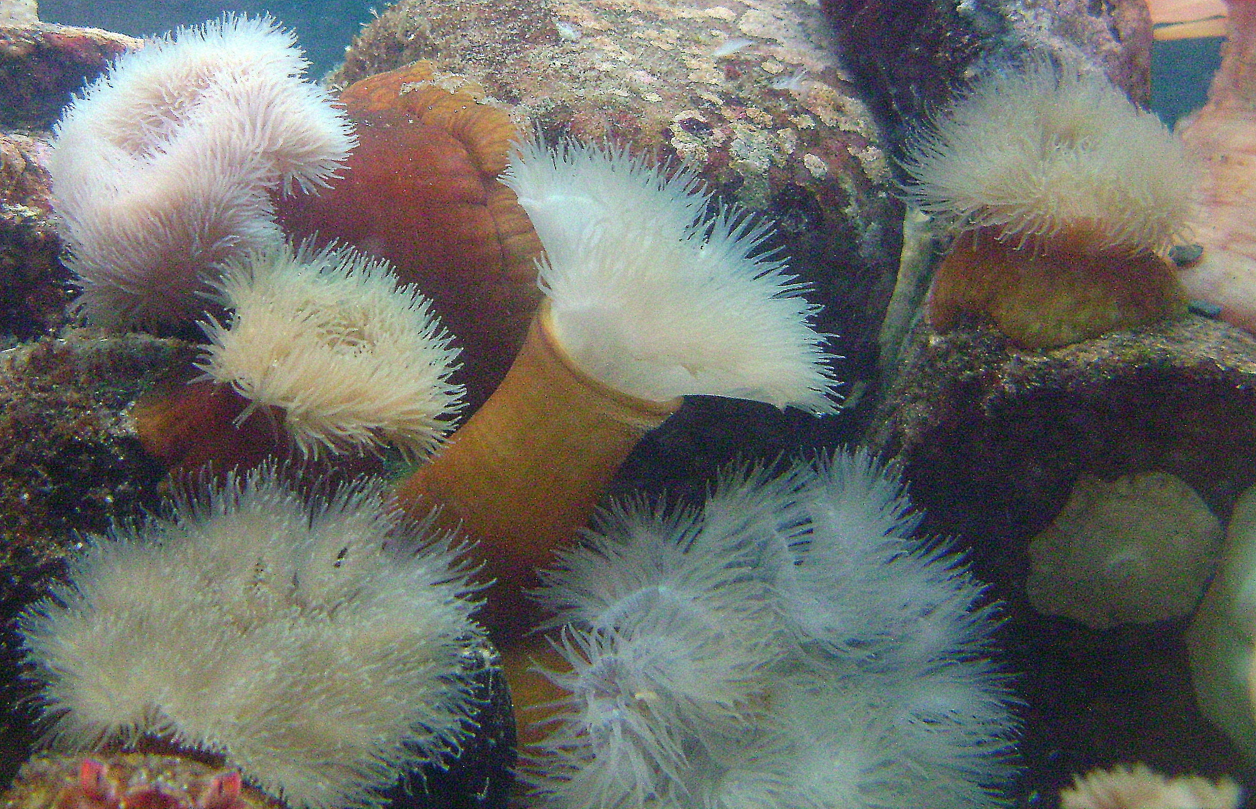 Six plumose anemones (Metridium senile), in the aquarium of the Saint-Lawrence exploration center, in Rivière-du-Loup, Québec